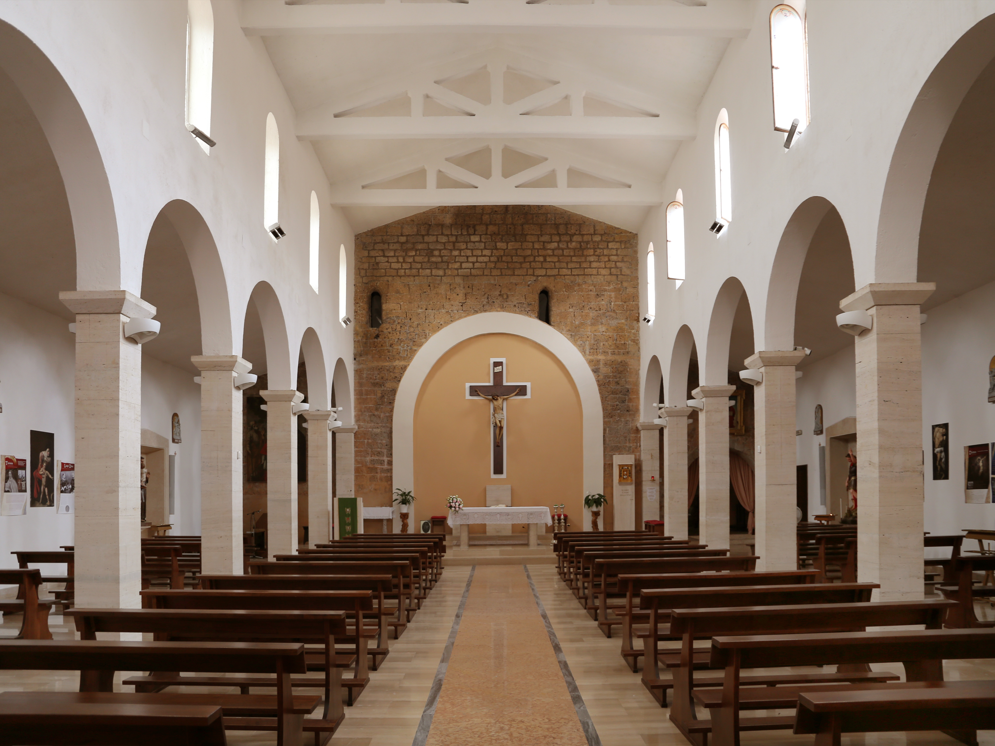 Santa Maria Maggiore (Cerveteri)